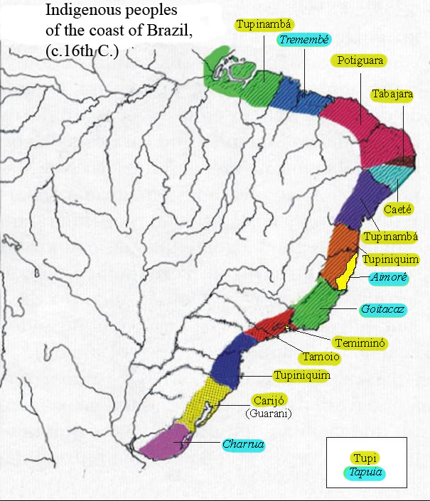 Distribution of indigenous peoples on the coast of Brazil in the 16th C. Yellow = Tupí peoples (inclusive of Guarani), Blue = non-Tupi peoples (Jê-speaking peoples, also known as Tapuia.)